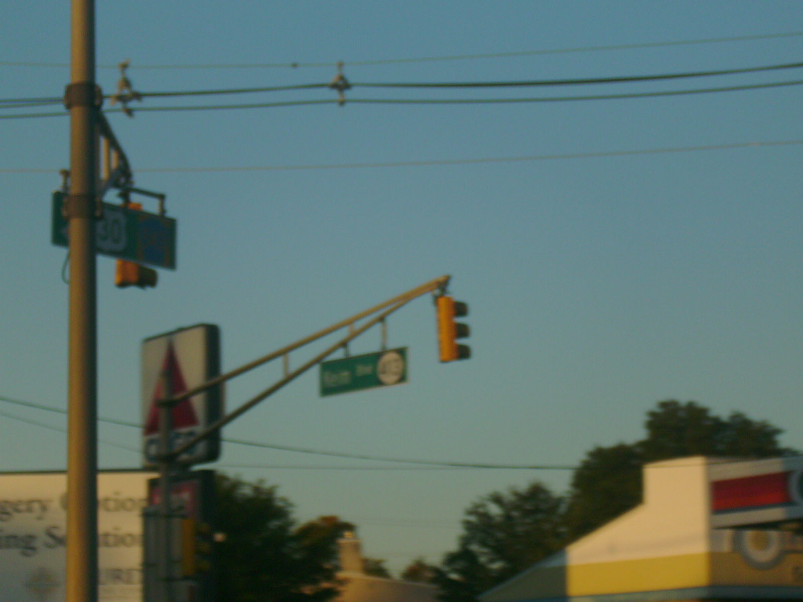 Overhead sign for New Jersey Route 413 at intersection with U.S. Route 130 in Burlington, New Jersey